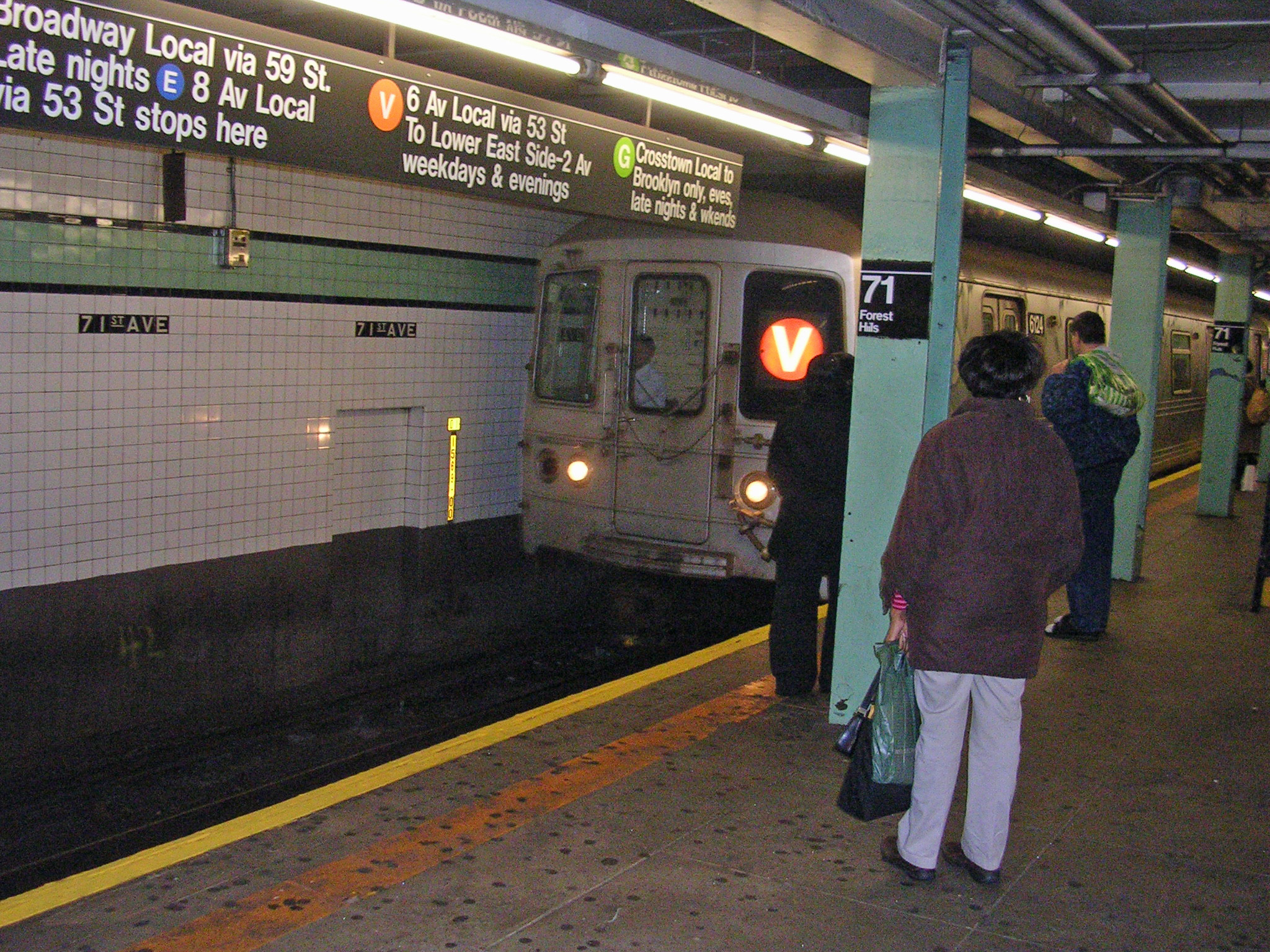 71st-Forest Hills Subway Station by David Shankbone, January 15, 2007.